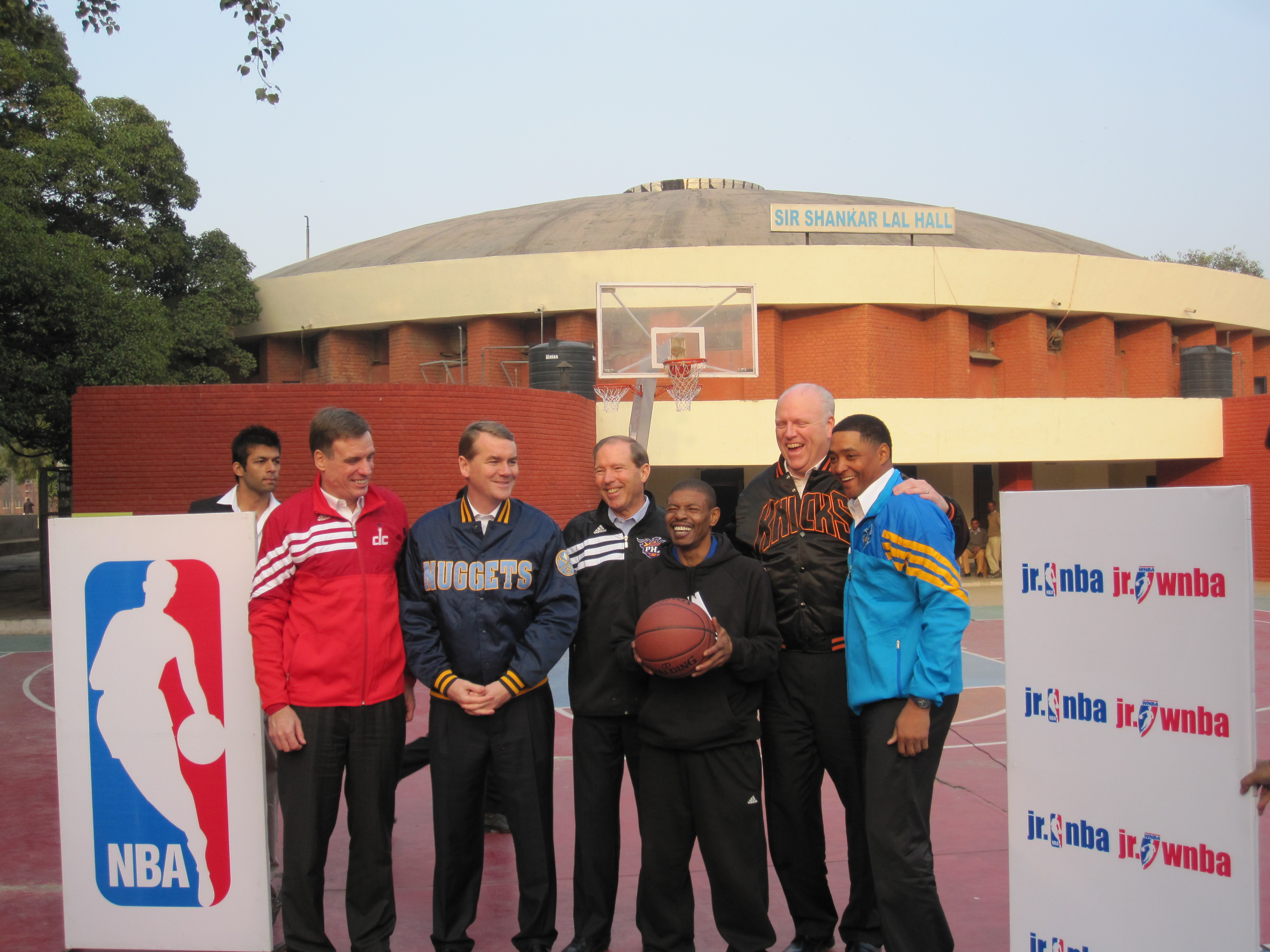 From left, Senator Warner, Colorado Senator Michael Bennet, New Mexico Senator Tom Udall, Former NBA player Muggsy Bogues, New York Congressman Joseph Crowley and Louisiana Congressman Cedric Richmond. Credit: Office of Sen. Mark R. Warner.